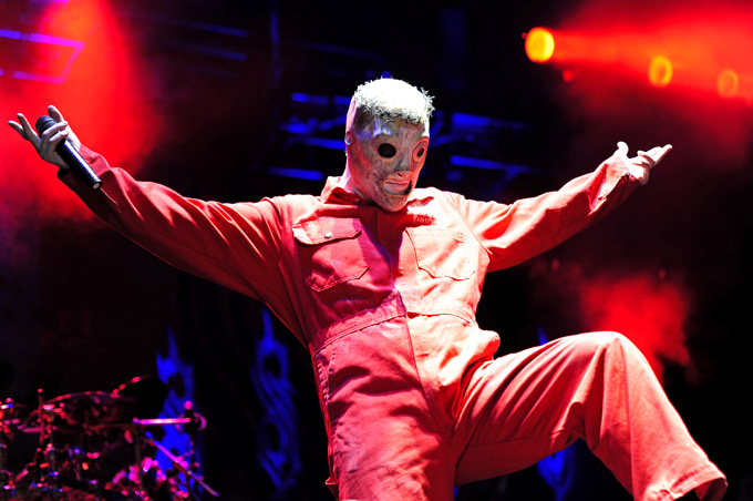 Soundwave Festival 2012 Do Not Publish